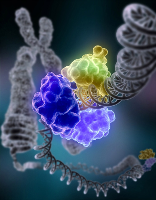 DNA damage, due to environmental factors and normal metabolic processes inside the cell, occurs at a rate of 1,000 to 1,000,000 molecular lesions per cell per day. A special enzyme, DNA ligase (shown here in color), encircles the double helix to repair a broken strand of DNA. DNA ligase is responsible for repairing the millions of DNA breaks generated during the normal course of a cell's life. Without molecules that can mend such breaks, cells can malfunction, die, or become cancerous. DNA ligases catalyse the crucial step of joining breaks in duplex DNA during DNA repair, replication and recombination, and require either Adenosine triphosphate (ATP) or Nicotinamide adenine dinucleotide (NAD+) as a cofactor. Shown here is DNA ligase I repairing chromosomal damage. The three visable protein structures are: The DNA binding domain (DBD) which is bound to the DNA minor groove both upstream and downstream of the damaged area. The OB-fold domain (OBD) unwinds the DNA slightly over a span of six base pairs and is generally involved in nucleic acid binding. The Adenylation domain (AdD) contains enzymatically active residues that join the broken nucleotides together by catalyzing the formation of a phosphodiester bond between a phosphate and hydroxyl group. It is likely that all mammalian DNA ligases (Ligases I, III, and IV) have a similar ring-shaped architecture and are able to recognize DNA in a similar manner. (See:Nature Article 2004, PDF)